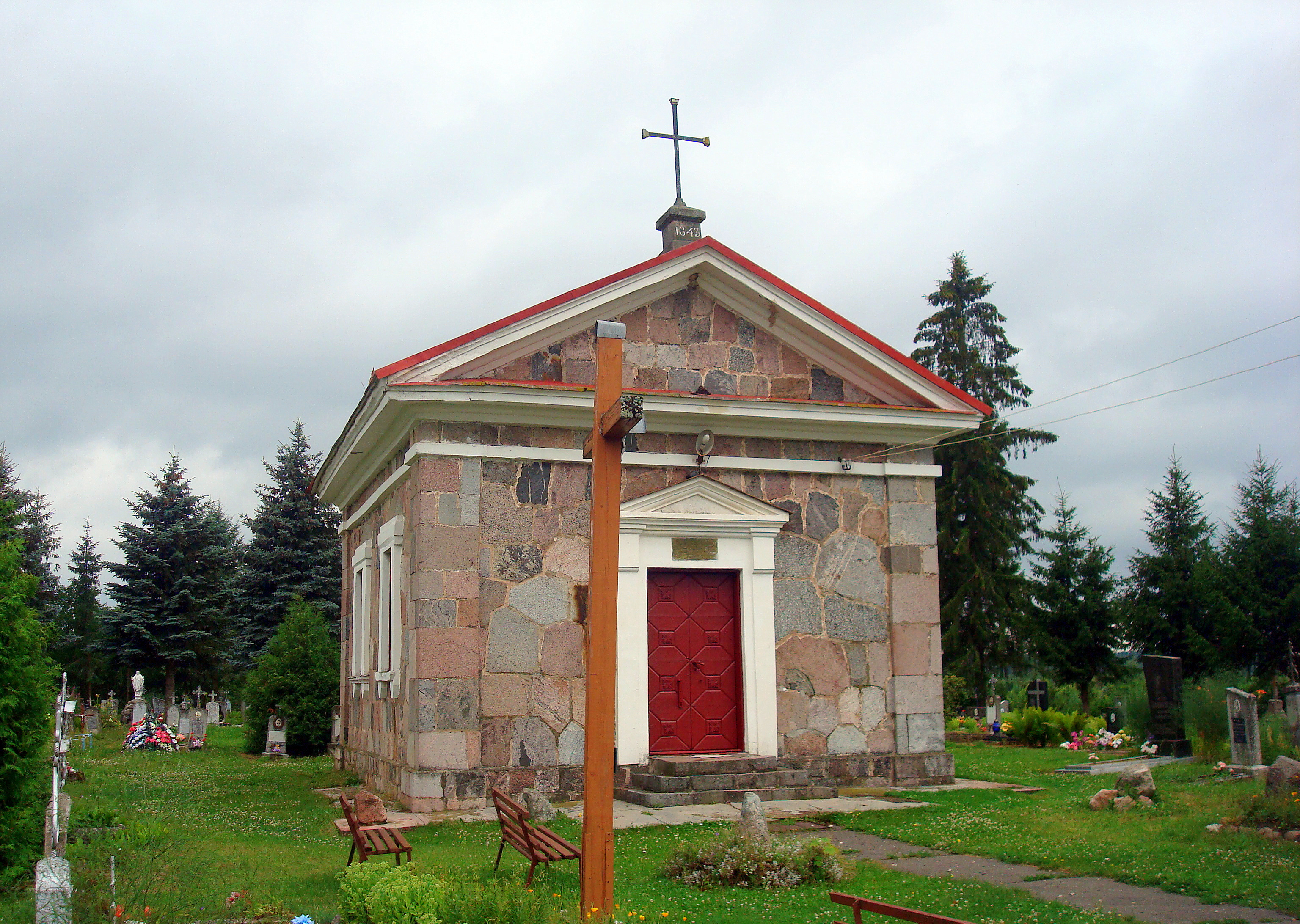 Burial vault of the Drucki-Lubecki family in Kazloŭščyna